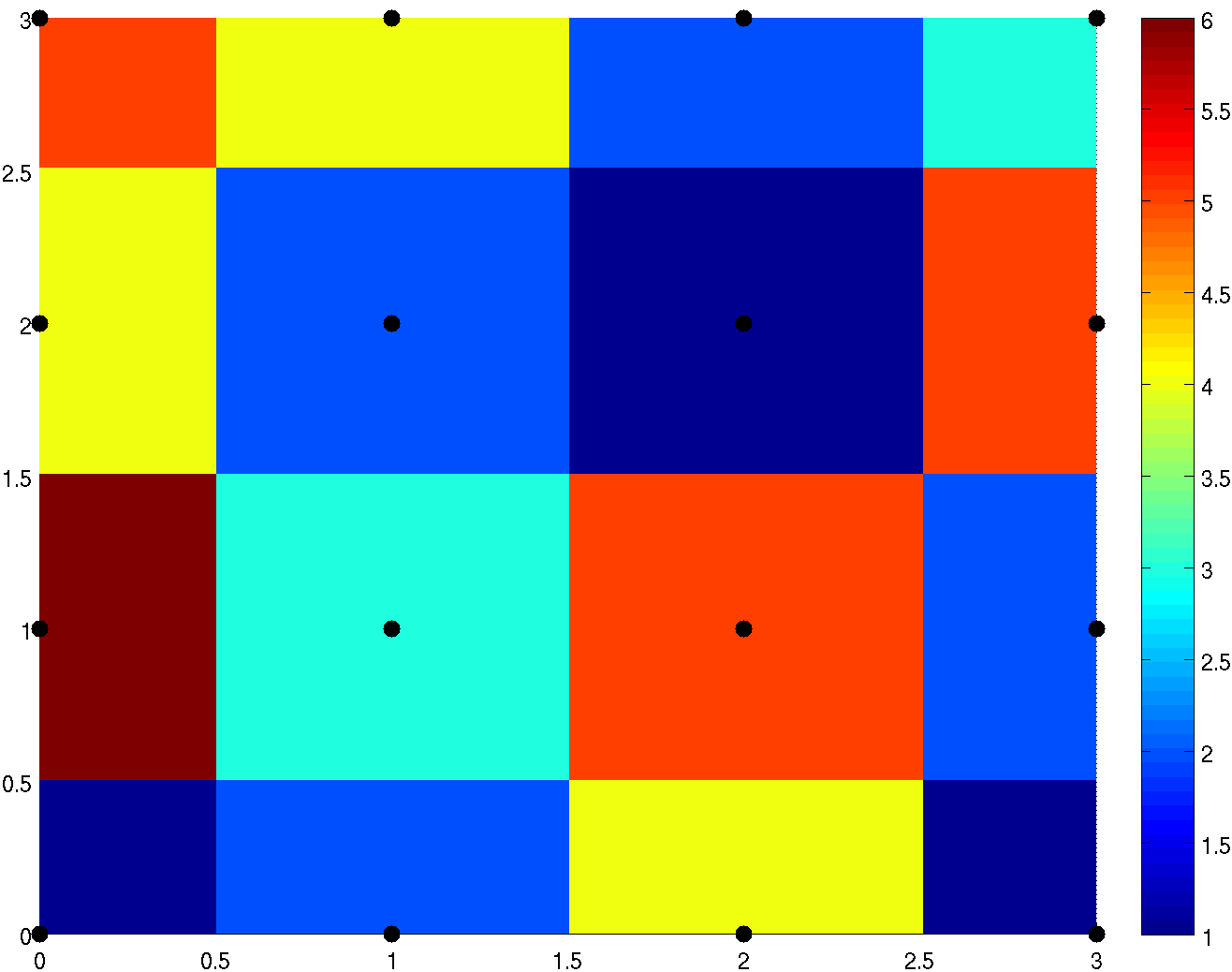 Illustration of Nearest neighbor interpolation on a dataset. Compare with File:BilinearInterpolExample.png and File:BicubicInterpolationExample.png, they share the dataset.